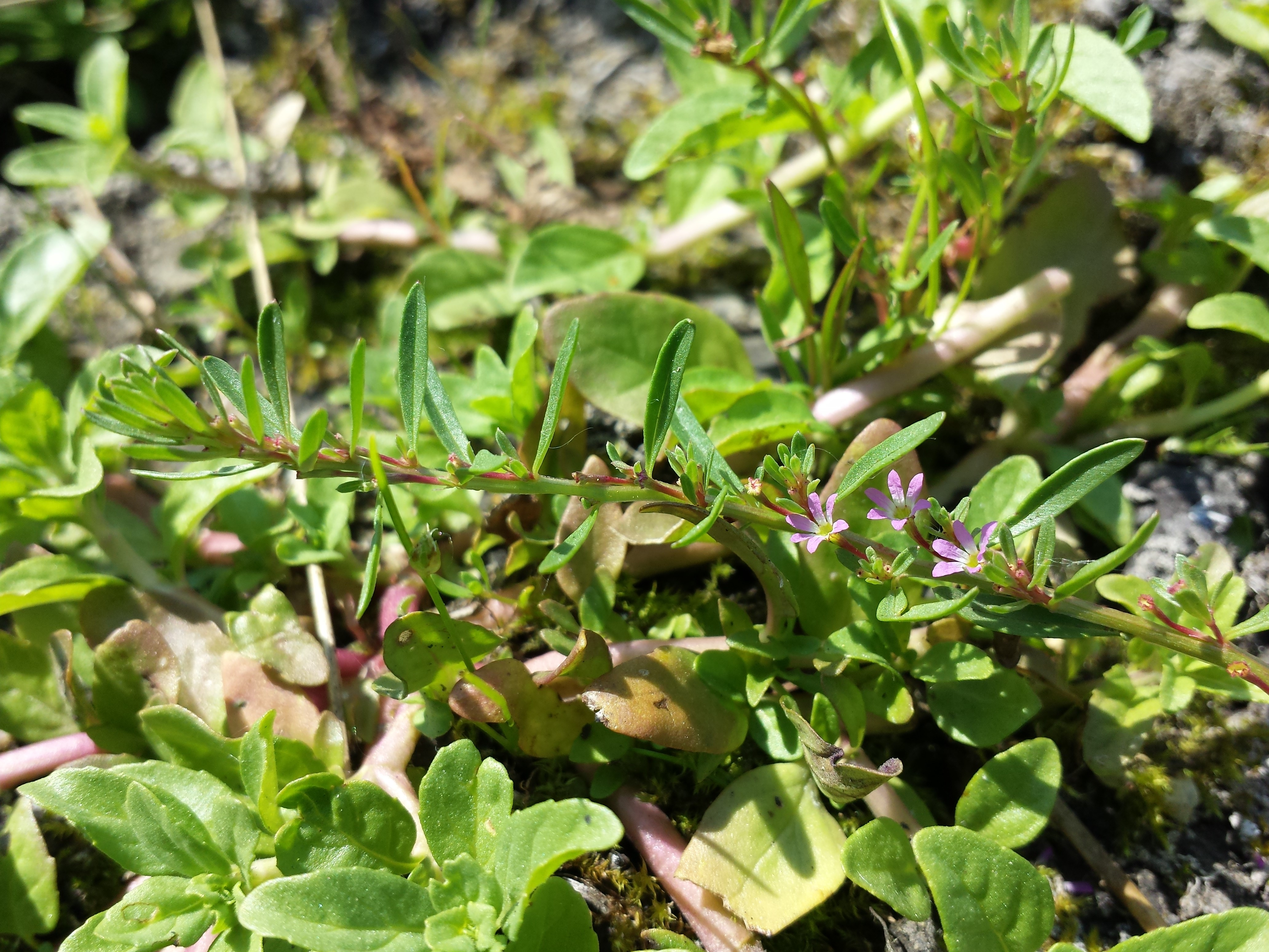 Habitus Taxonym: Lythrum tribracteatum ss G. Király et al.: New Hungarian Herbal. Illustrations. ISBN 978-963-88158-0-4; det. Gergely Király 2015-06-07 Location: Veszprém County, Hungary - ca. 200 m a.s.l. Habitat: wet meadows